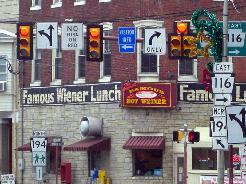 Hanover Historic District This photo was taken in Hanover PA.